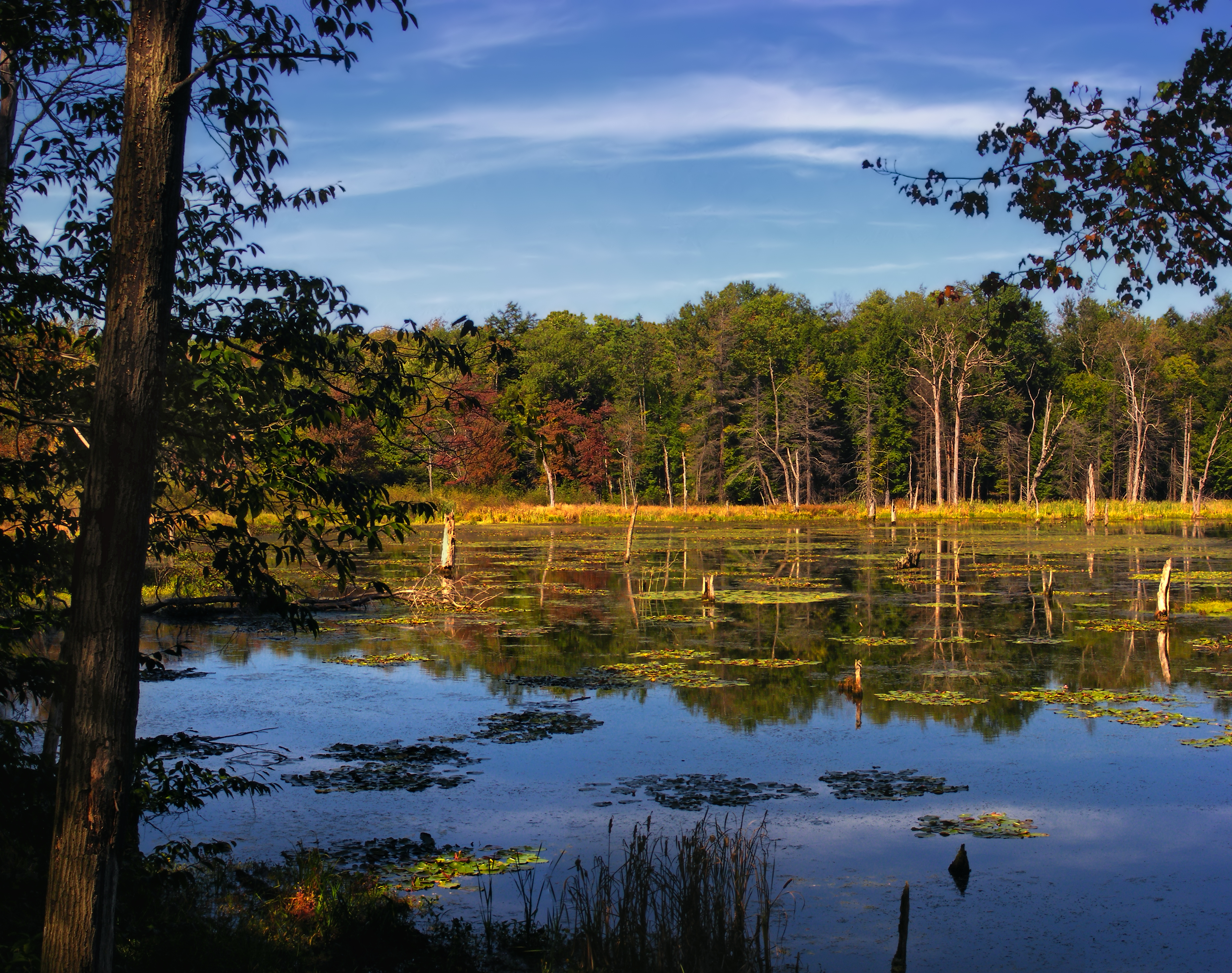 Wetland, at the Woodbourne Forest and Wildlife Preserve, Susquehanna County. The preserve, managed by The Nature Conservancy, protects a large tract of old-growth hemlock and northern hardwoods.